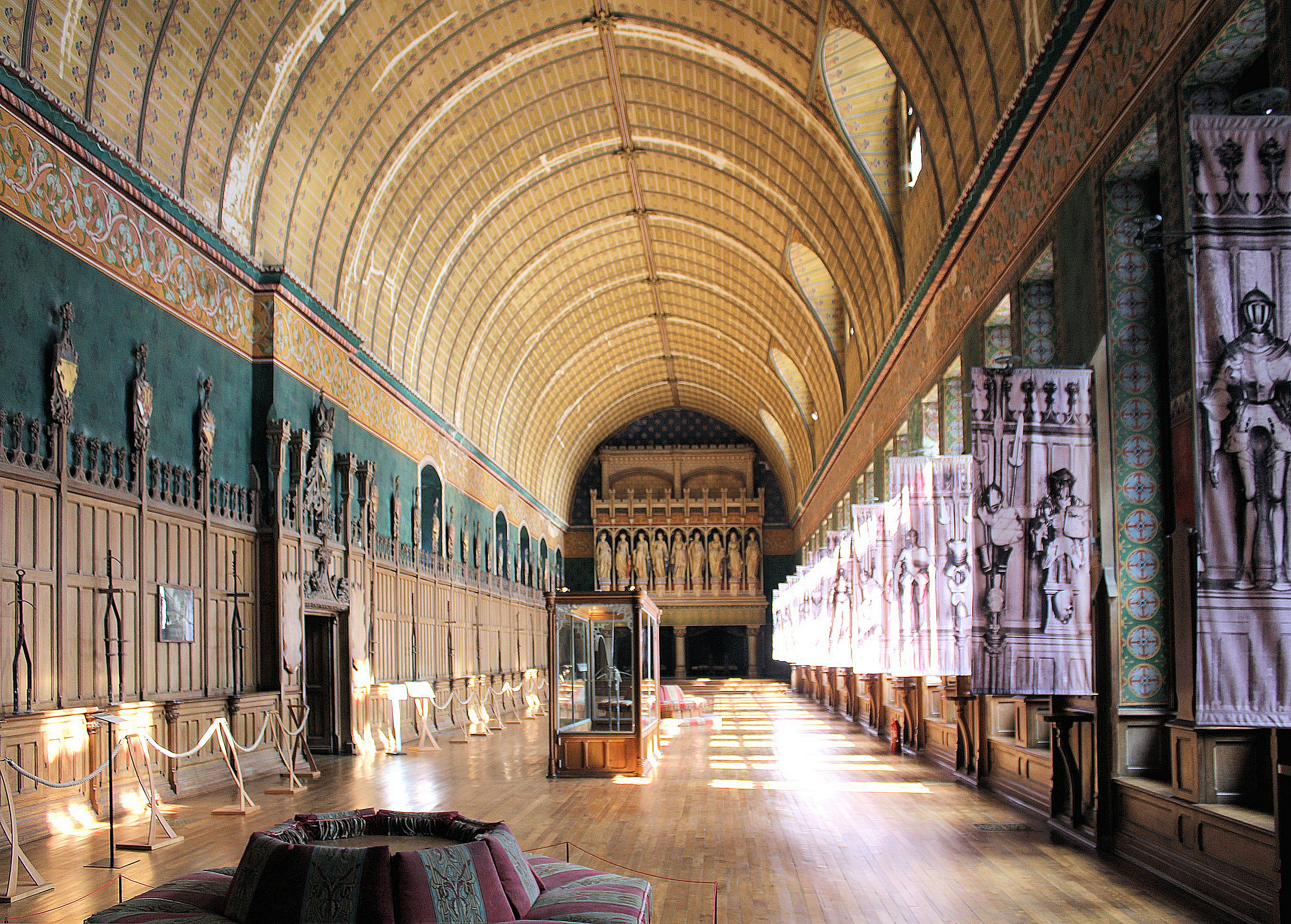 Pierrefonds, castle, the heroes' room